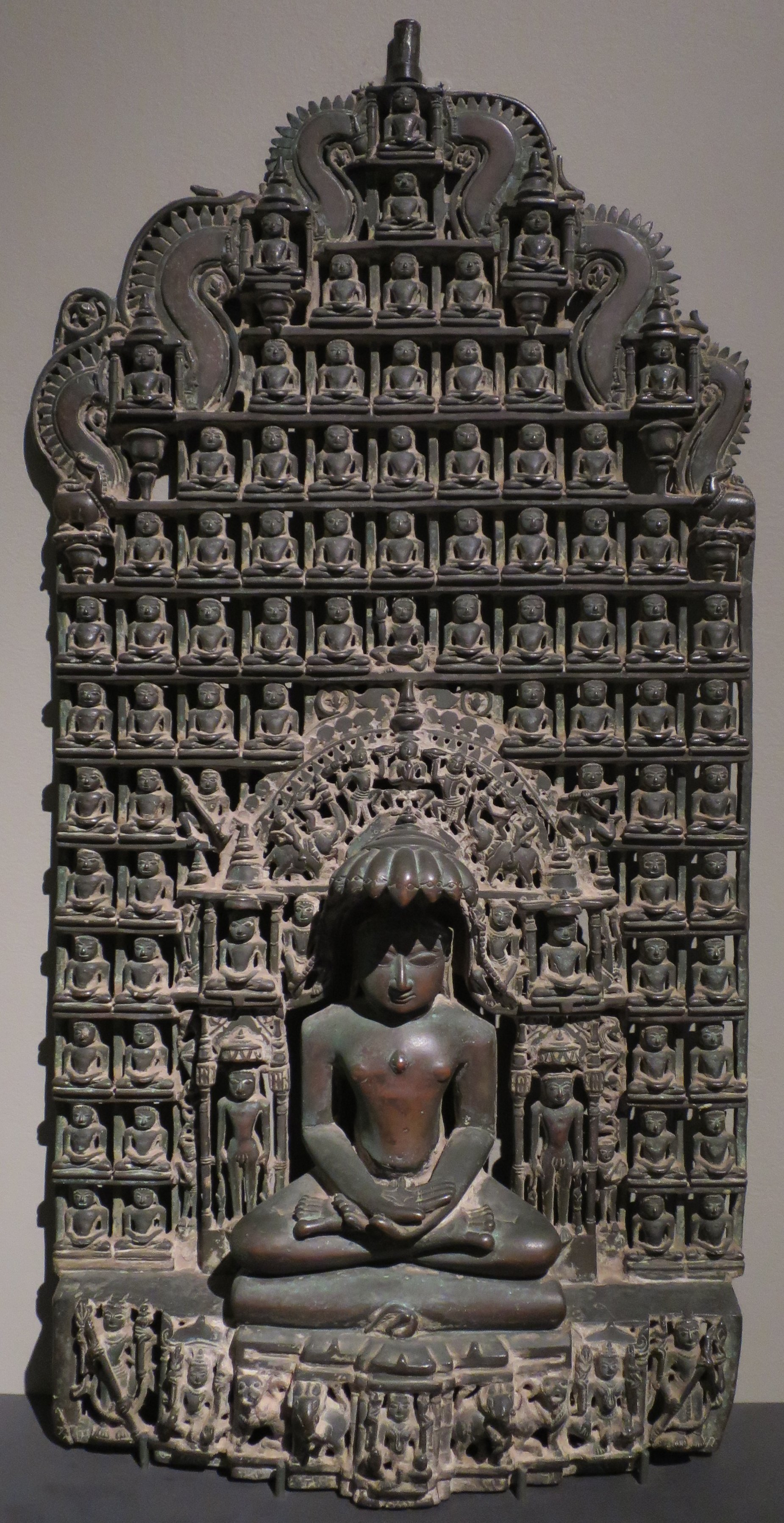 Altarpiece with multiple Jinas from Rajasthan or Gujarat, India, c. 1500, copper alloy, Norton Simon Museum